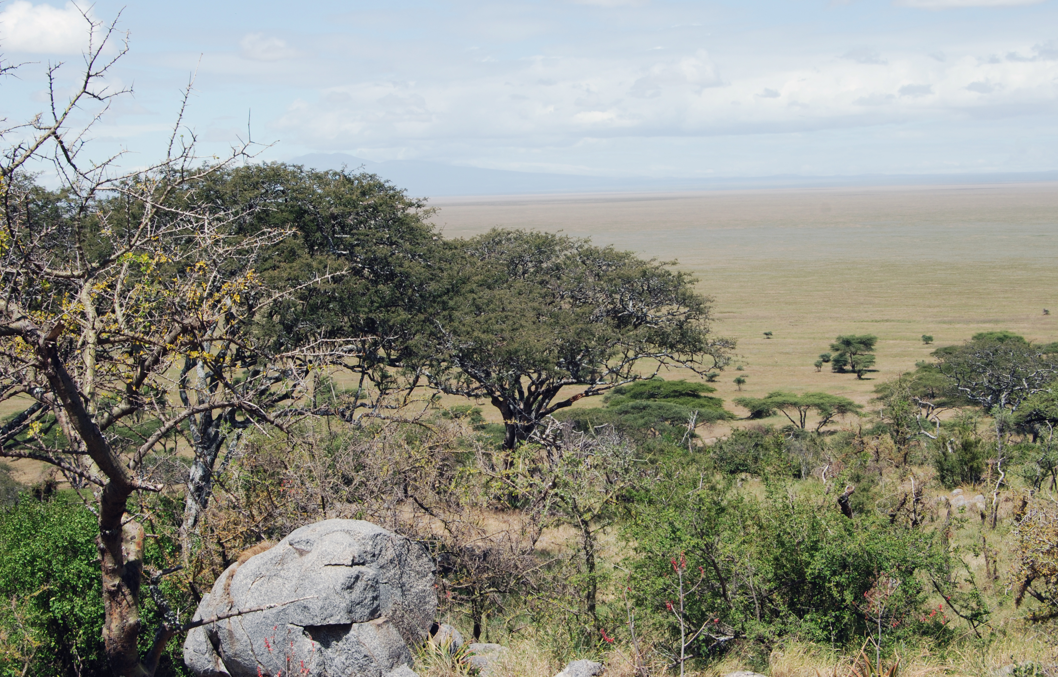 Serengeti - as viewed from the Naabi Hill entrance to the Serengeti National Park when coming west from Arusha